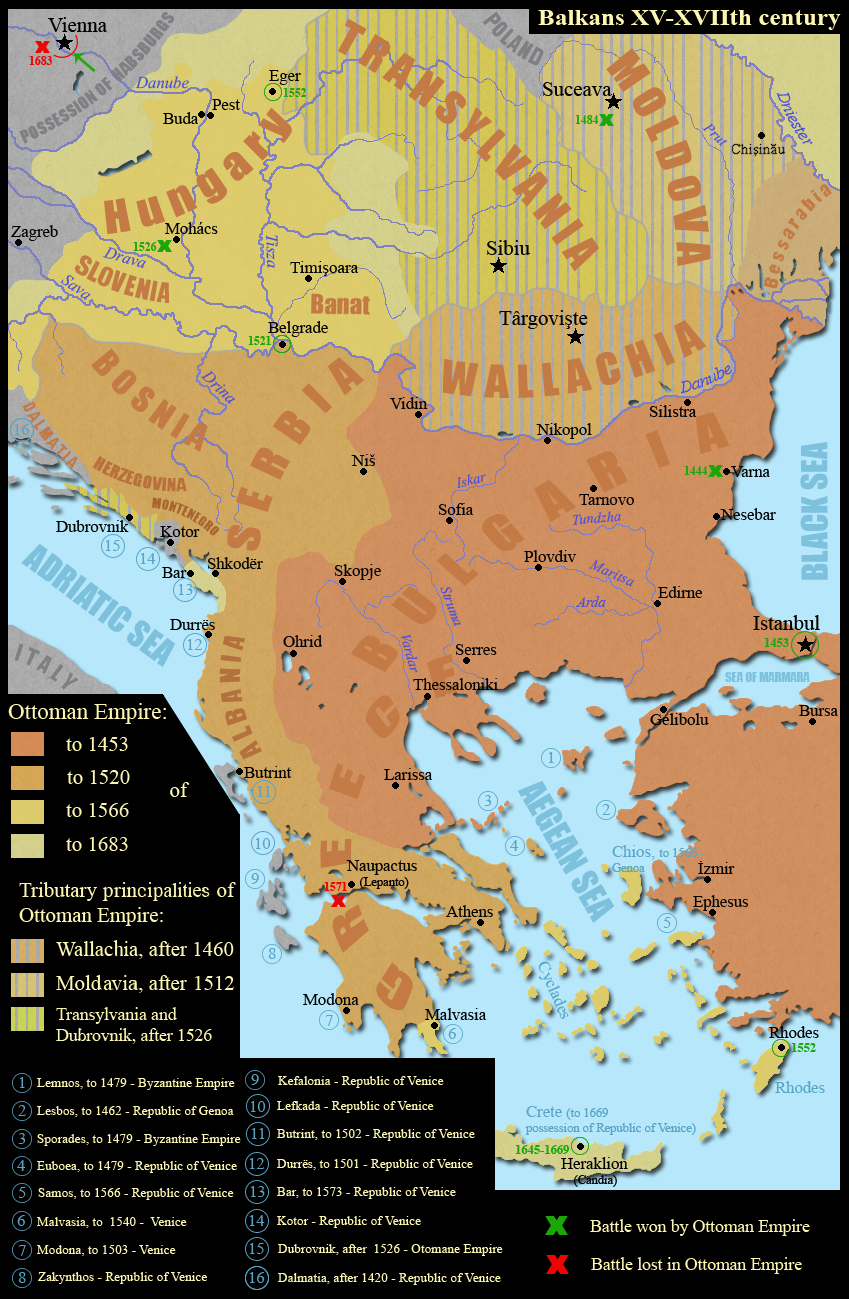 Balkans XV-XVIIth century